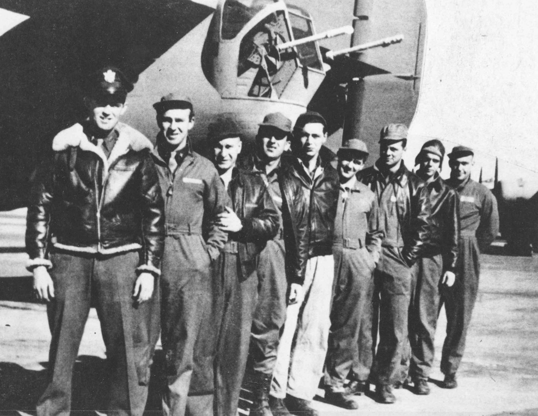 The ill-fated crew of the Consolidated B-24D "Lady Be Good," from the left: 1Lt. W.J. Hatton, pilot; 2Lt. R.F. Toner, copilot; 2Lt. D.P. Hays, navigator; 2Lt. J.S. Woravka, bombardier; TSgt. H.J. Ripslinger, engineer; TSgt. R.E. LaMotte, radio operator; SSgt. G.E. Shelly, gunner; SSgt. V.L. Moore, gunner; and SSgt. S.E. Adams, gunner.